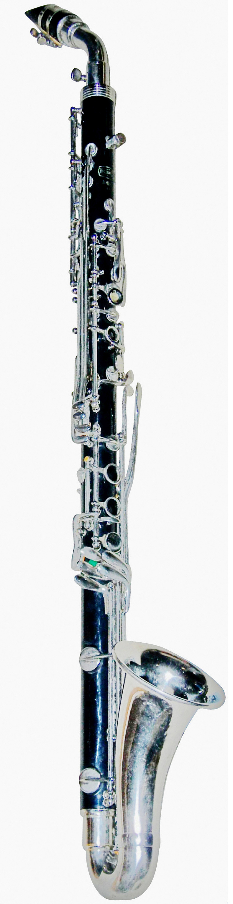 Taken by myself with a Nikon Coolpix 7600 digital camera, approx. 4:00 pm CST 26 December 2006.